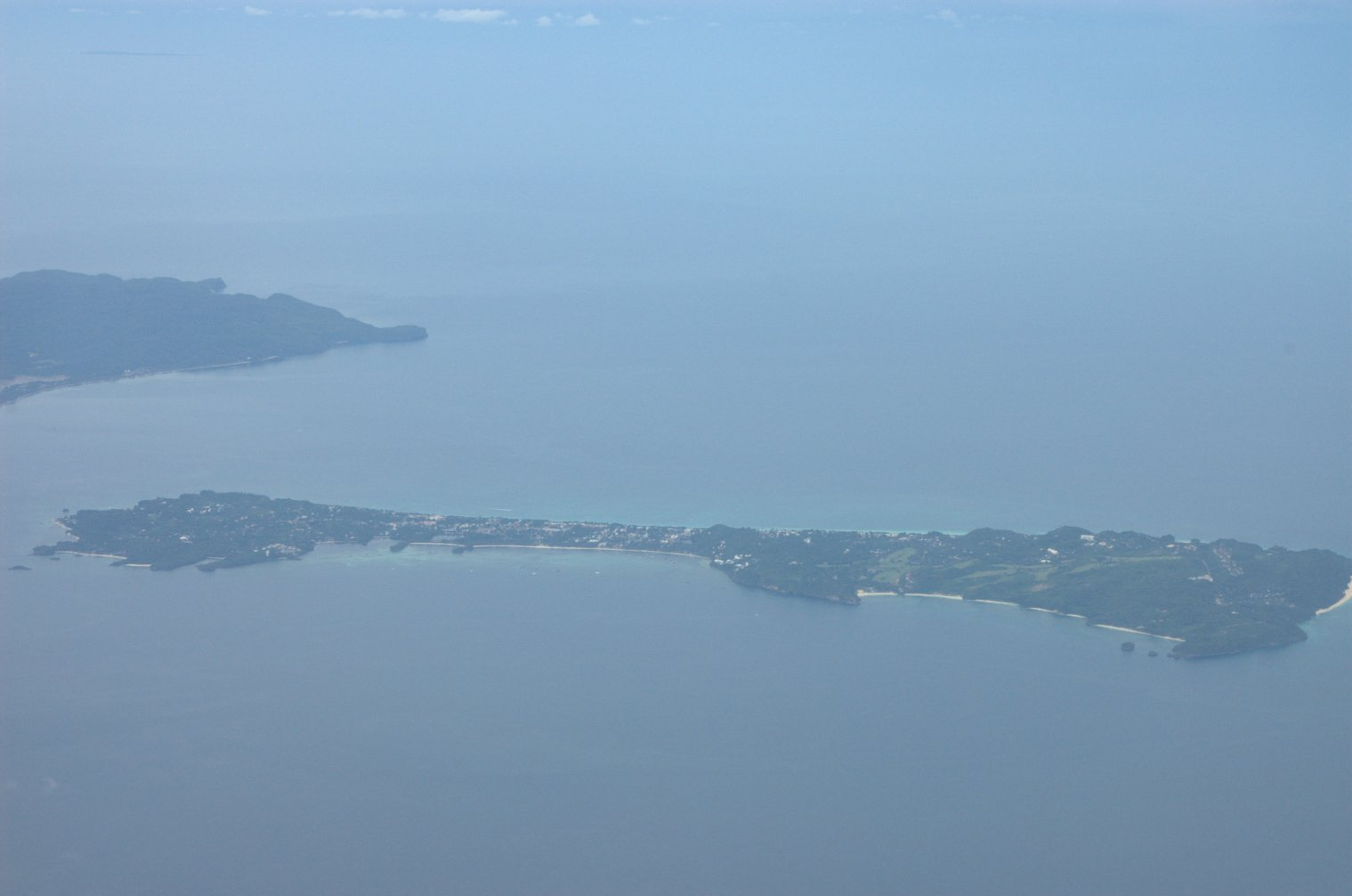 Boracay Island, Aklan, Philippines